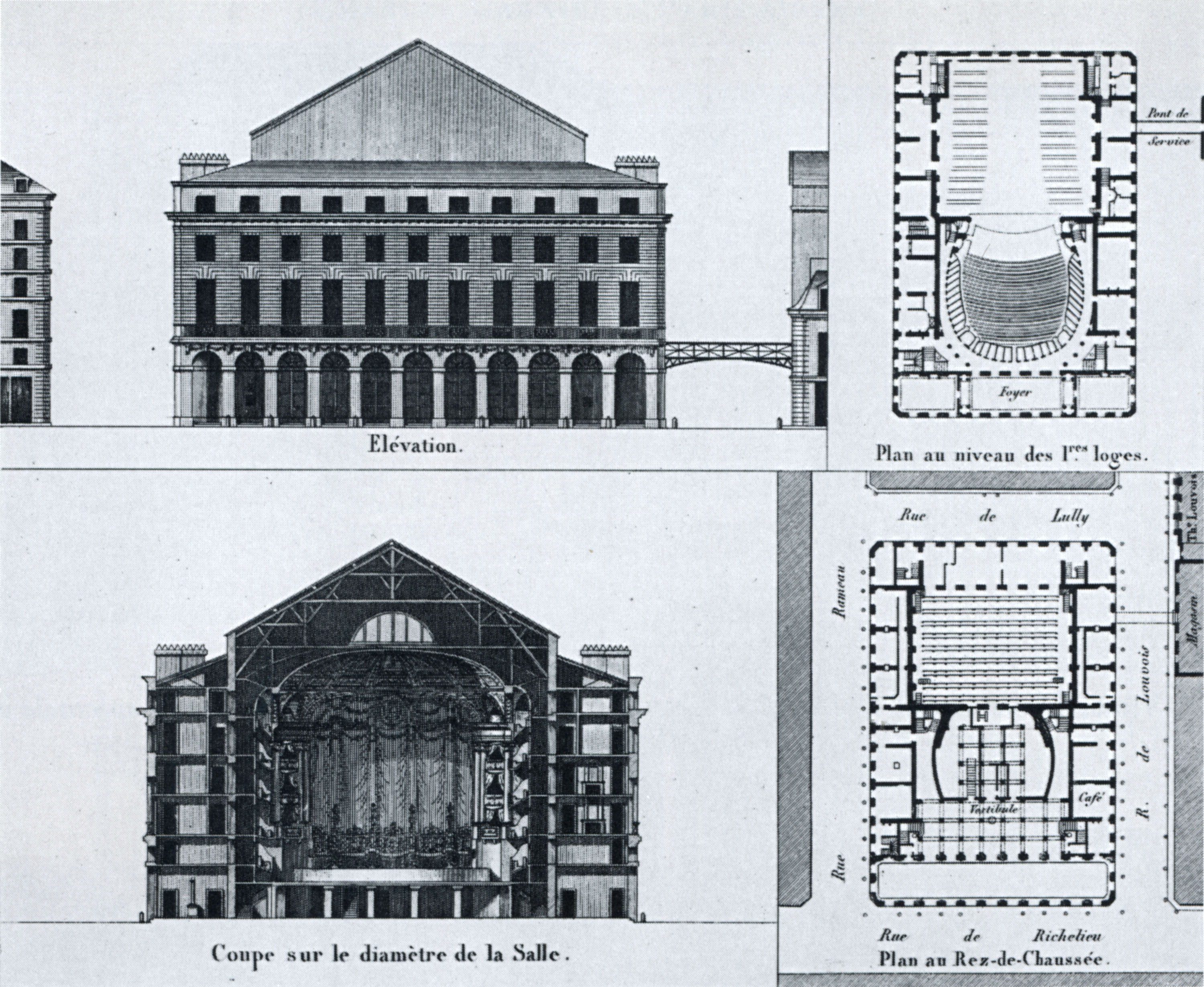 Front elevation, transverse section, plans of the Théâtre des Arts (Rue de la Loi), designed by Victor Louis, built 1791–1793. Mead cites: Donnet, Architectonographie des théâtres de Paris, 1837, plate 14 (photo from the Bibliothèque de l'Opéra). See also: plate 14 (scan by Google Books of a copy from Ghent University). For the French text describing this plate see pp. 201–218 in Donnet's accompanying text volume. The plans reflect the theatre as remodeled for the Paris Opera in 1794 by Raymond and Brongniart.